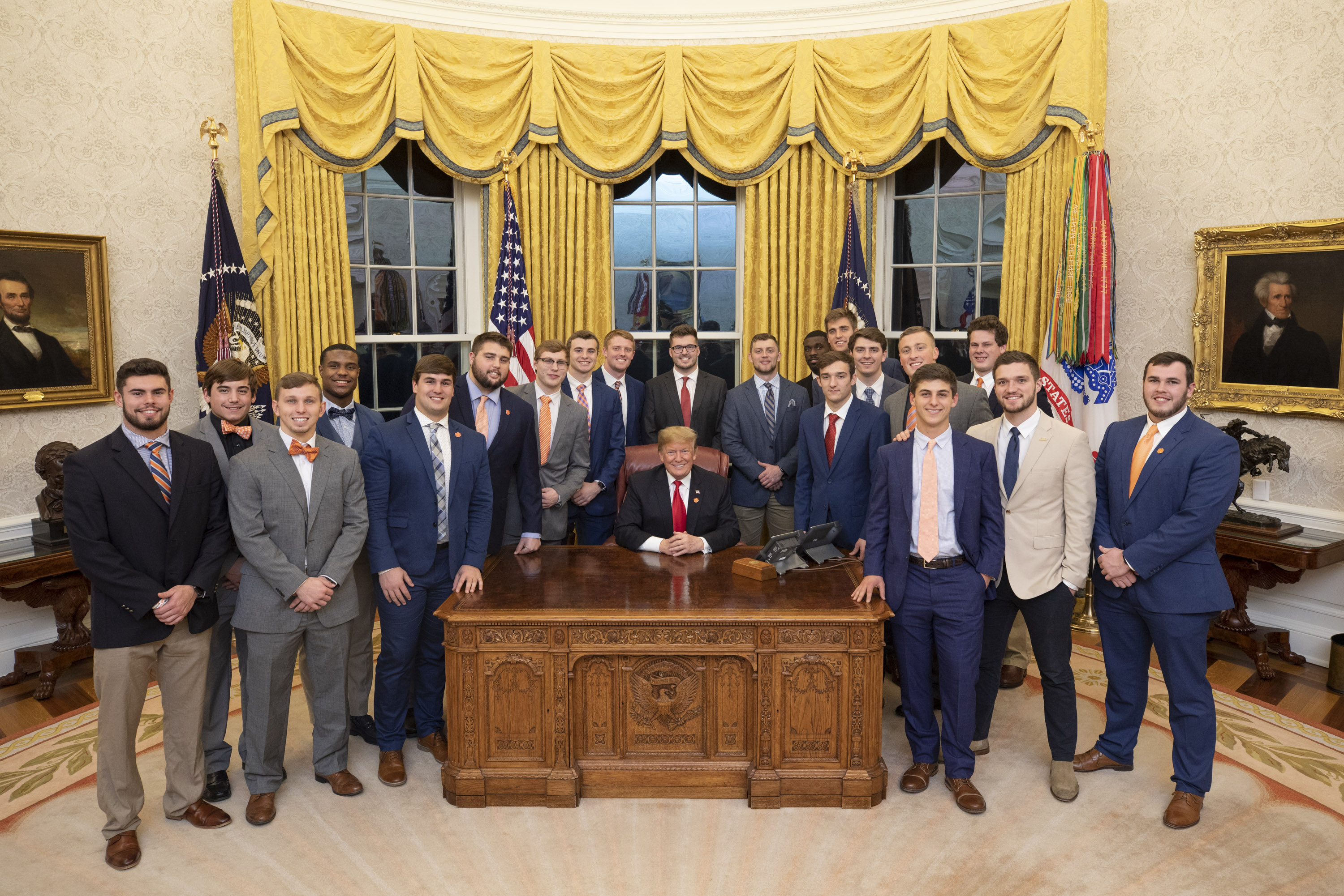 President Donald J. Trump meets with players from the 2018 NCAA College Football National Champions the Clemson Tigers Monday, January 14, 2019, in the Oval Office. (Official White House Photo by Joyce N. Boghosian)